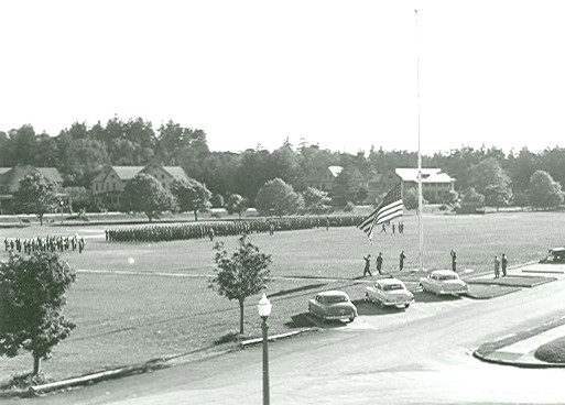 Fort Worden, retreat formation, 369th Engineer Boat and Shore regiment